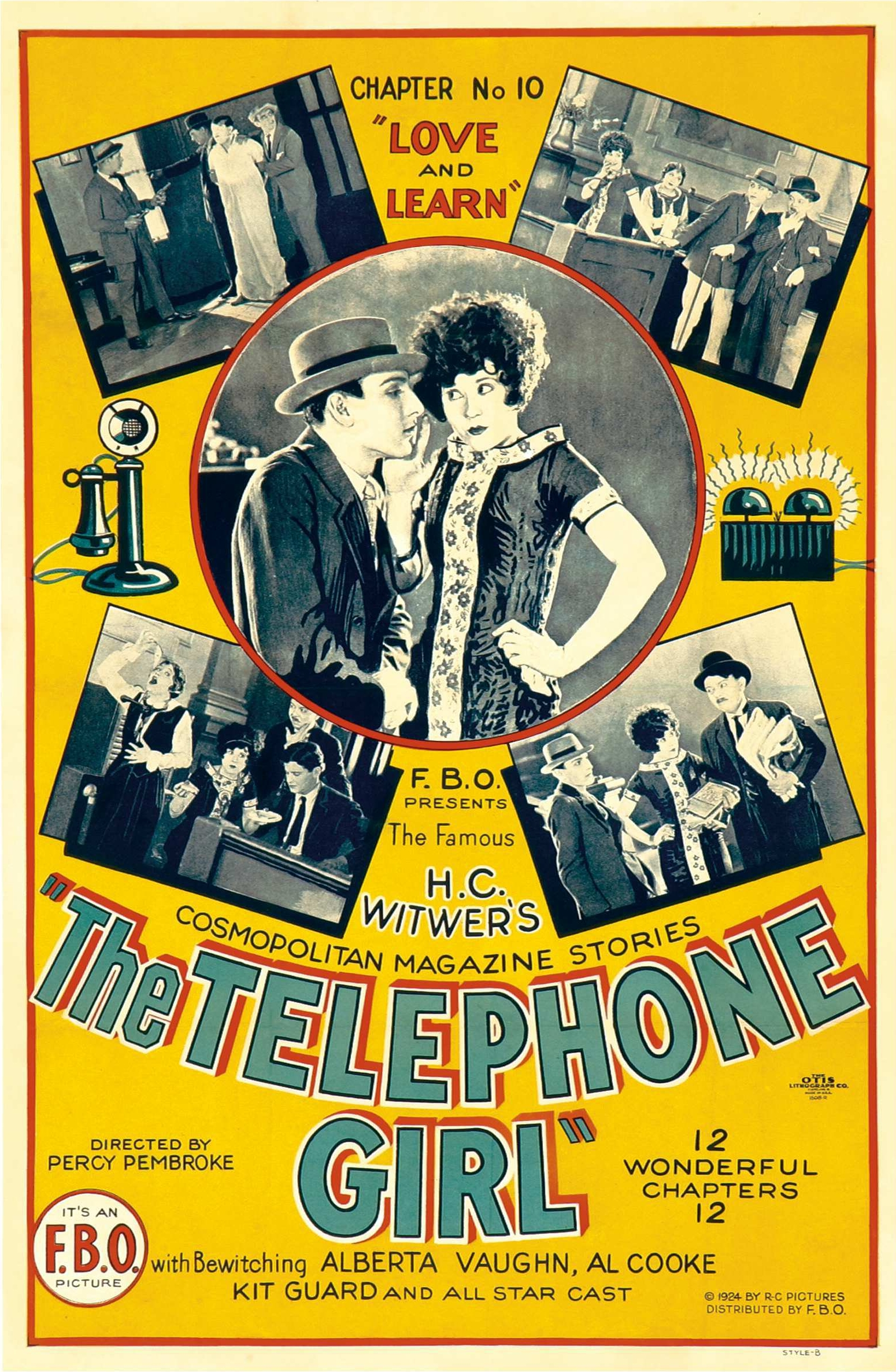 Description: Low-resolution image of poster for the tenth installment, Love and Learn (1924), of The Telephone Girl, a series of shorts starring Alberta Vaughn and Al Cooke. Corporate author/original rights holder: Film Booking Offices of America Inc. Source: Scan from private collection Public domain explanation The image was published as an advertisement in the U.S. in 1924. There is no evidence that copyright notice was originally filed on the image, as then required. For instance, this image evidently shows the entire poster and no copyright notice. A search of copyright renewal records for 1951 and 1952 ([1], [2], [3], [4]) reveals no evidence that the then corporate heir to the corporate author of the work--RKO Radio Pictures--renewed copyrights to this poster or any collection of posters or any collection of material that might encompass this poster as would have been required to maintain copyright protection, if any. There is no evidence that the work's corporate author's descendant corporation--RKO Pictures LLC--claims copyright on the image.